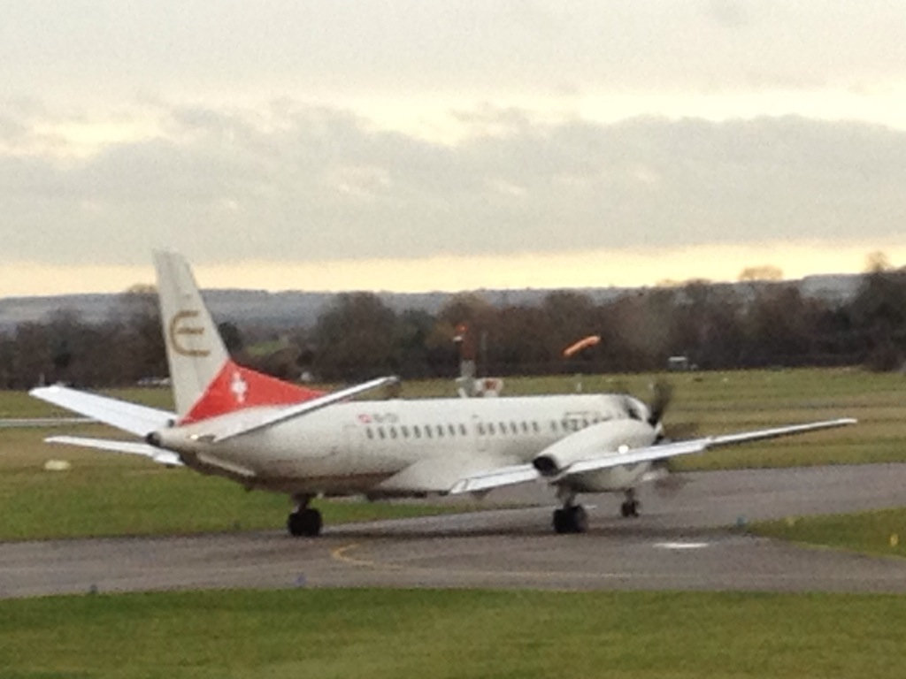 Passenger flights at CBG are operated by European airlines